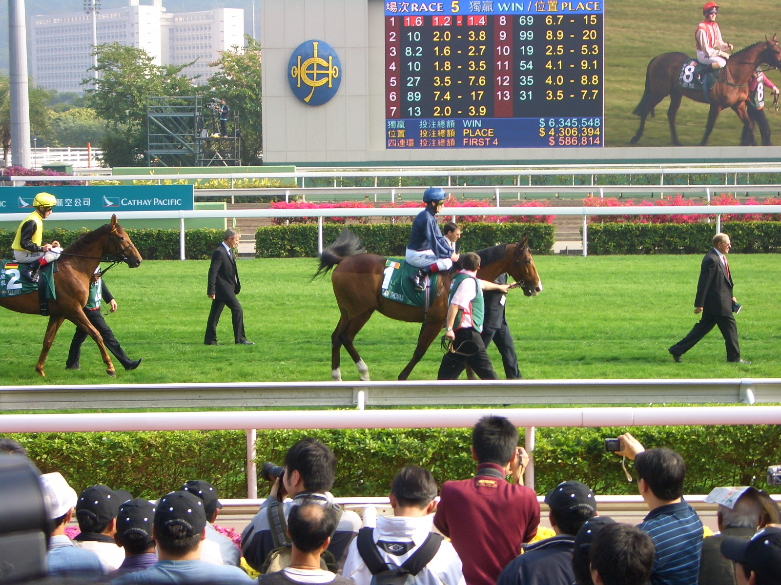 Dylan Thomas(right), winner of Prix de l'Arc de Triomphe, starting for 2007 Hong Kong Vase